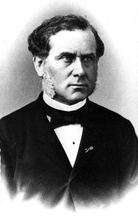 Leonhard Heyl (1814-1877)